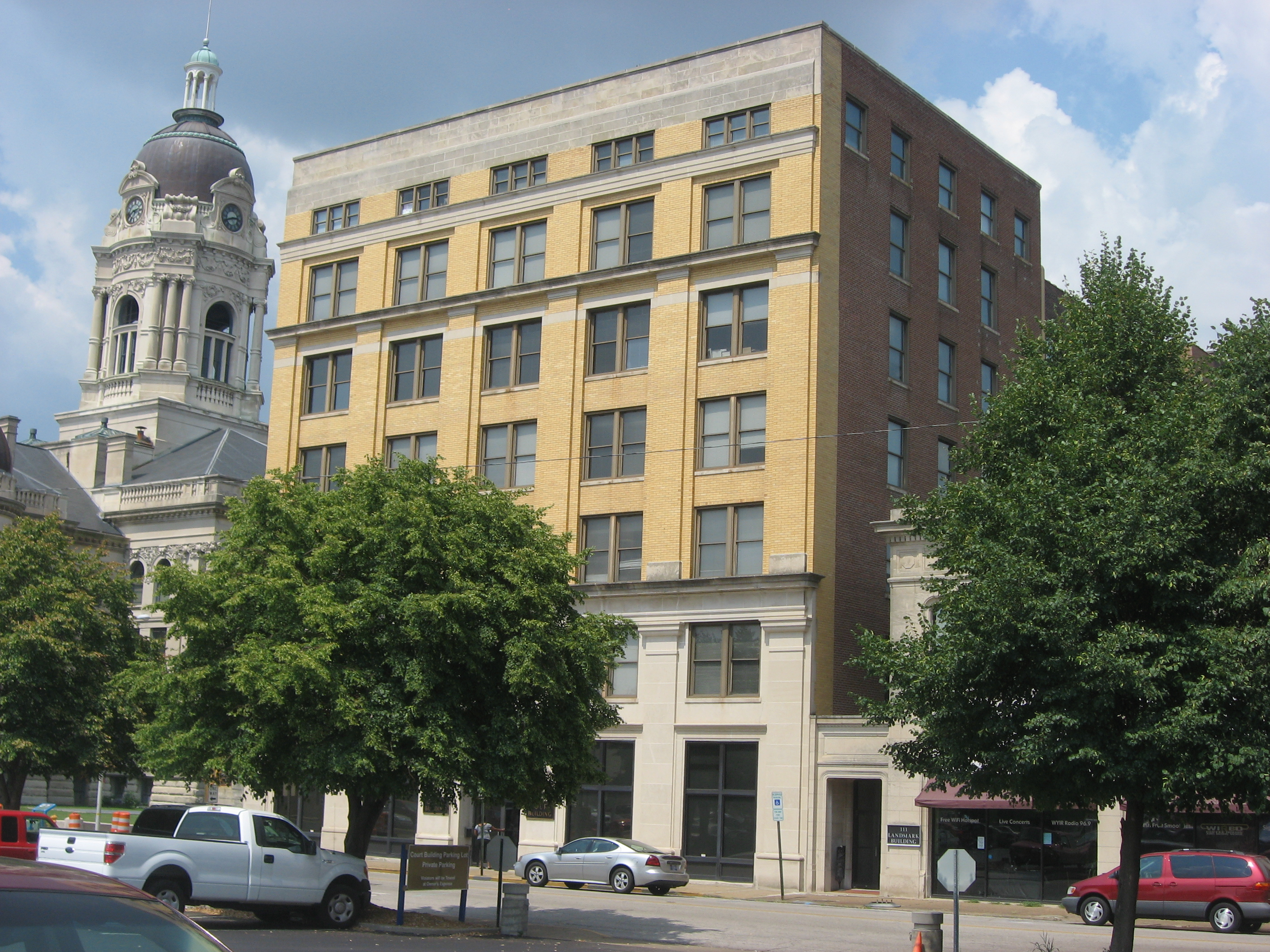 Front of the Furniture Building, located at 123-125 NW. Fourth Street in Evansville, Indiana, United States. Built in 1909, it is listed on the National Register of Historic Places.